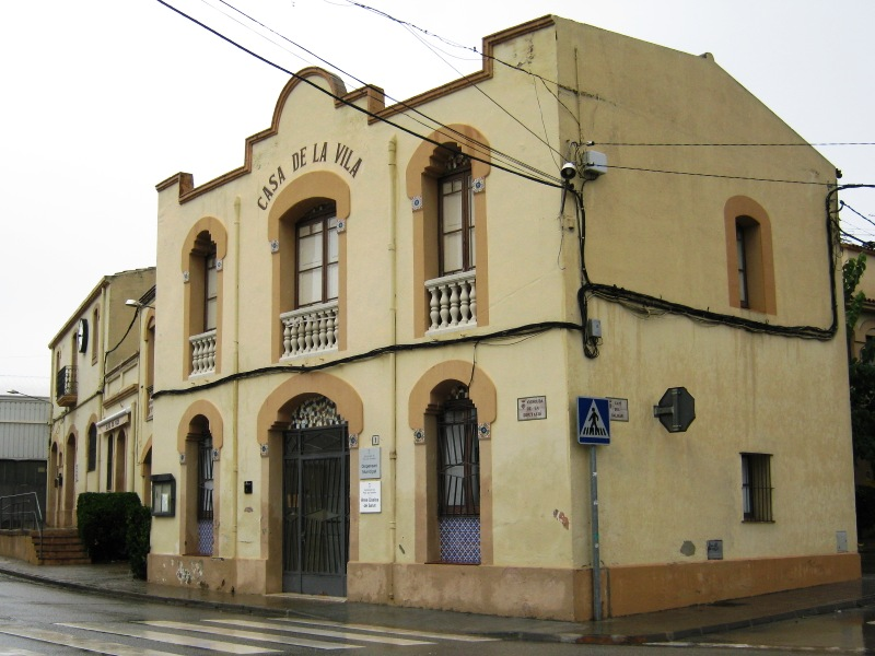 Pacs del Penedès Town Council